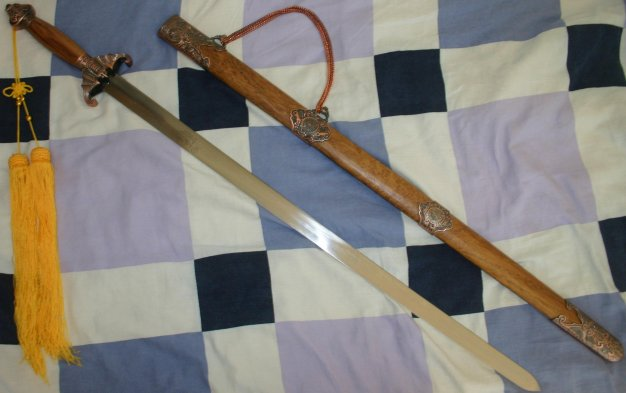 A chinese sword, known as Jiàn, with its scabbard.